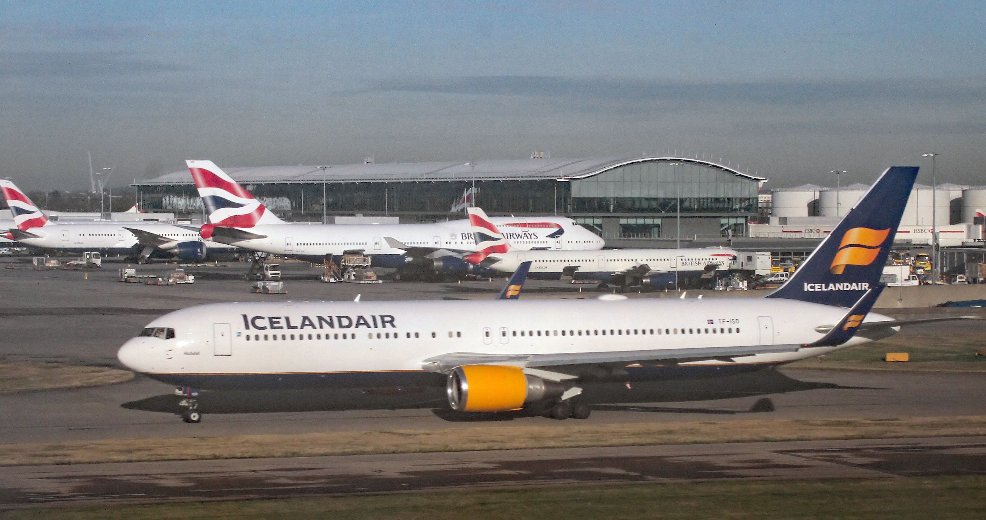 TF-ISO Icelandair Boeing 767-319(ER)(WL)